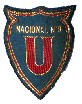 Escudo del Colegio Nacional Número 9 Justo José de Urquiza de Flores, Ciudad Autónoma de Buenos Aires, Argentina.